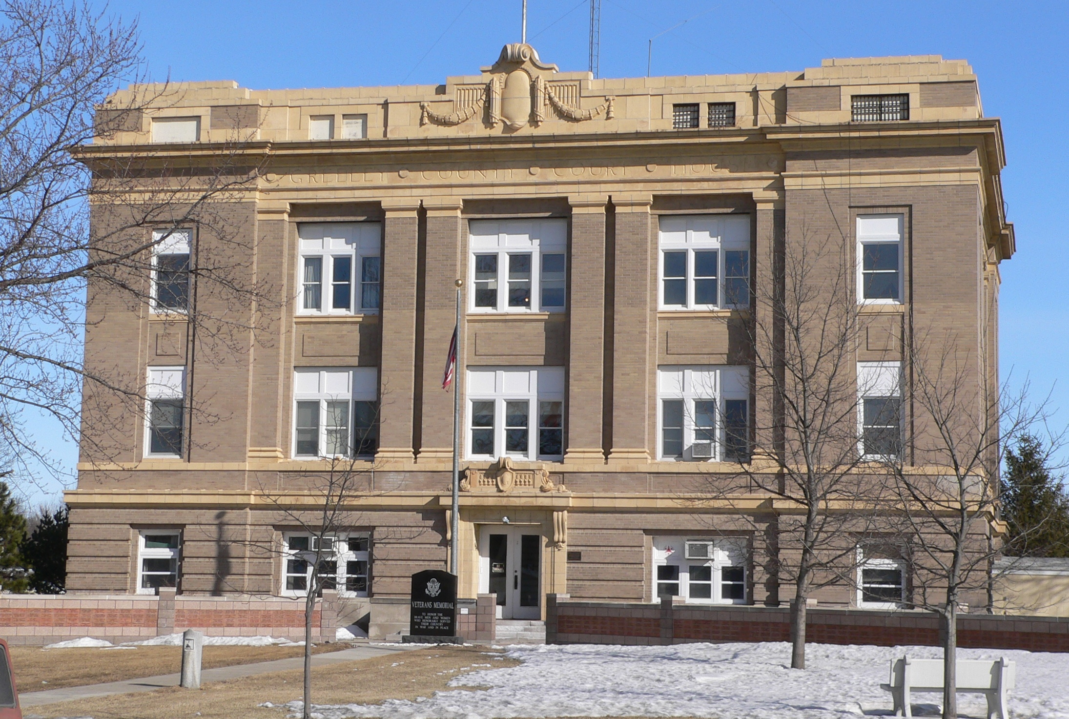 Greeley County Courthouse in Greeley, Nebraska; seen from the west. The building was designed in Classical Revival style by architects Berlinghof & Davis, and built in 1913. It is listed in the National Register of Historic Places.